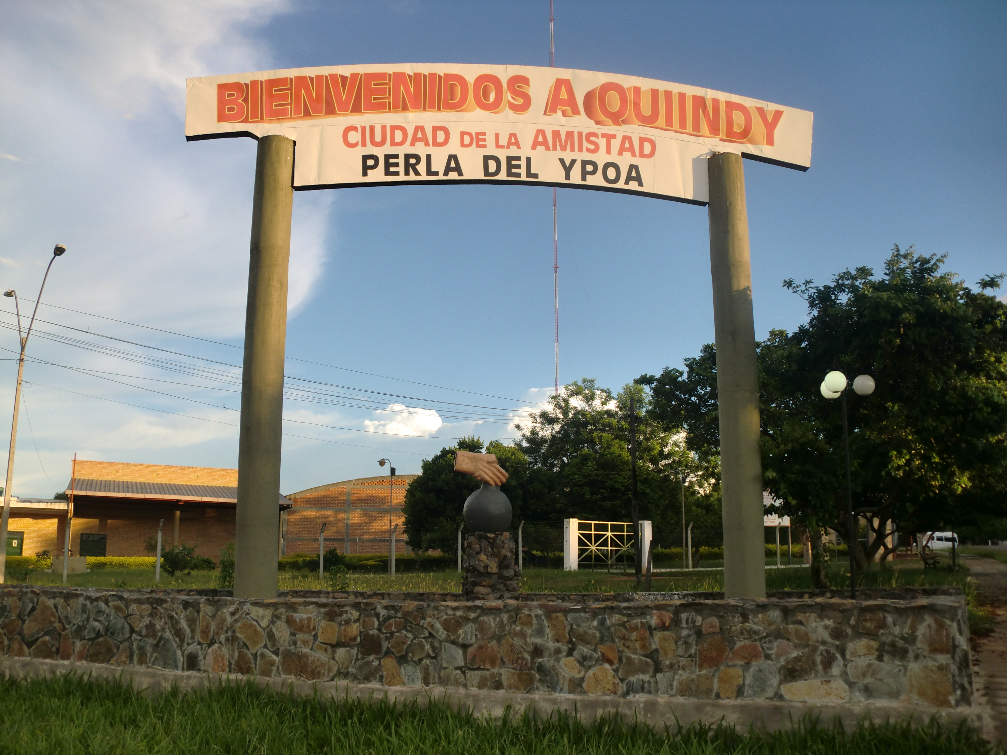 Welcome to Quiindy City